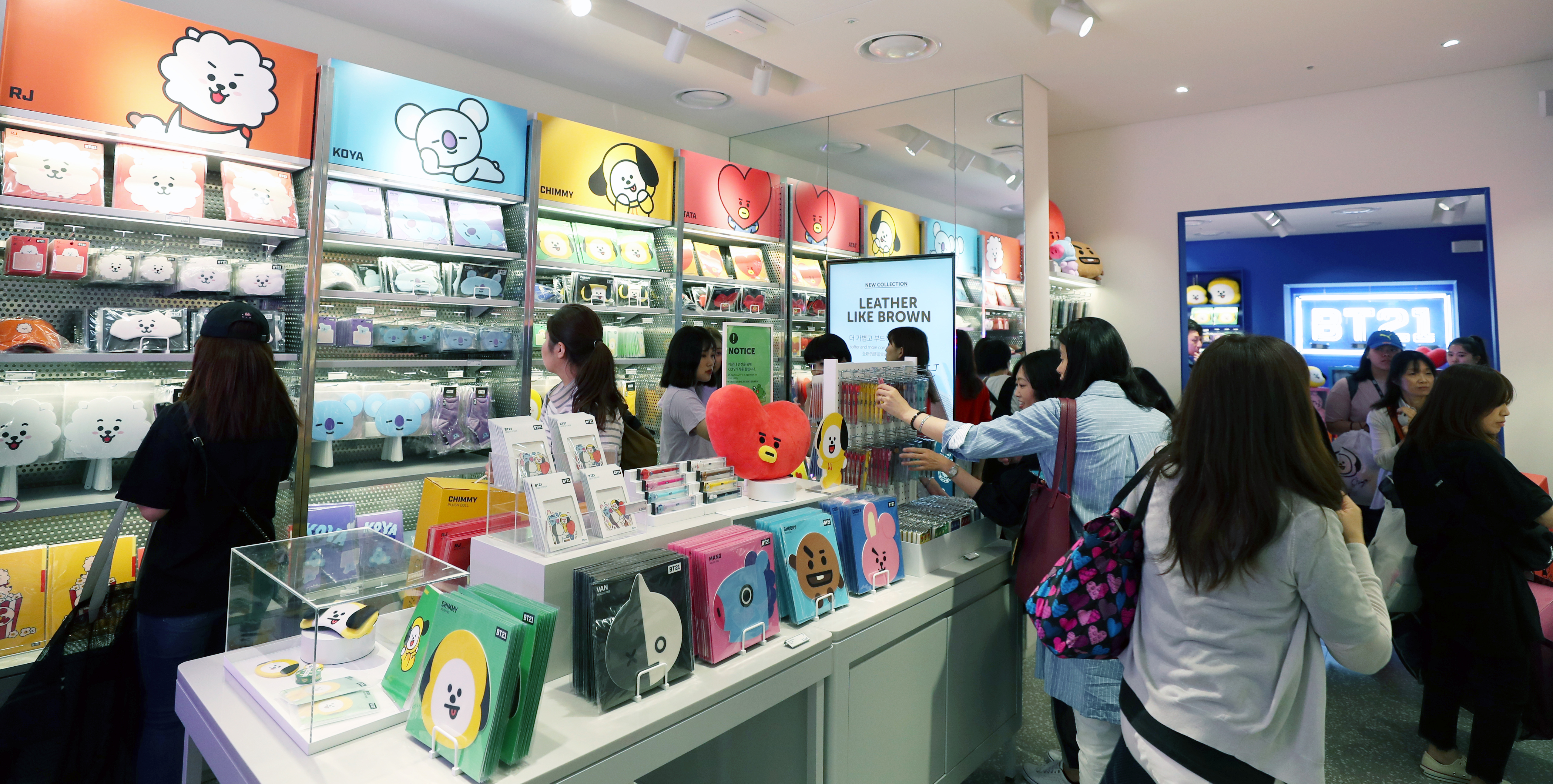 Line Friends Store, ‘BT21’ June 8, 2018 Line Friends Store, Mapo-gu, Seoul